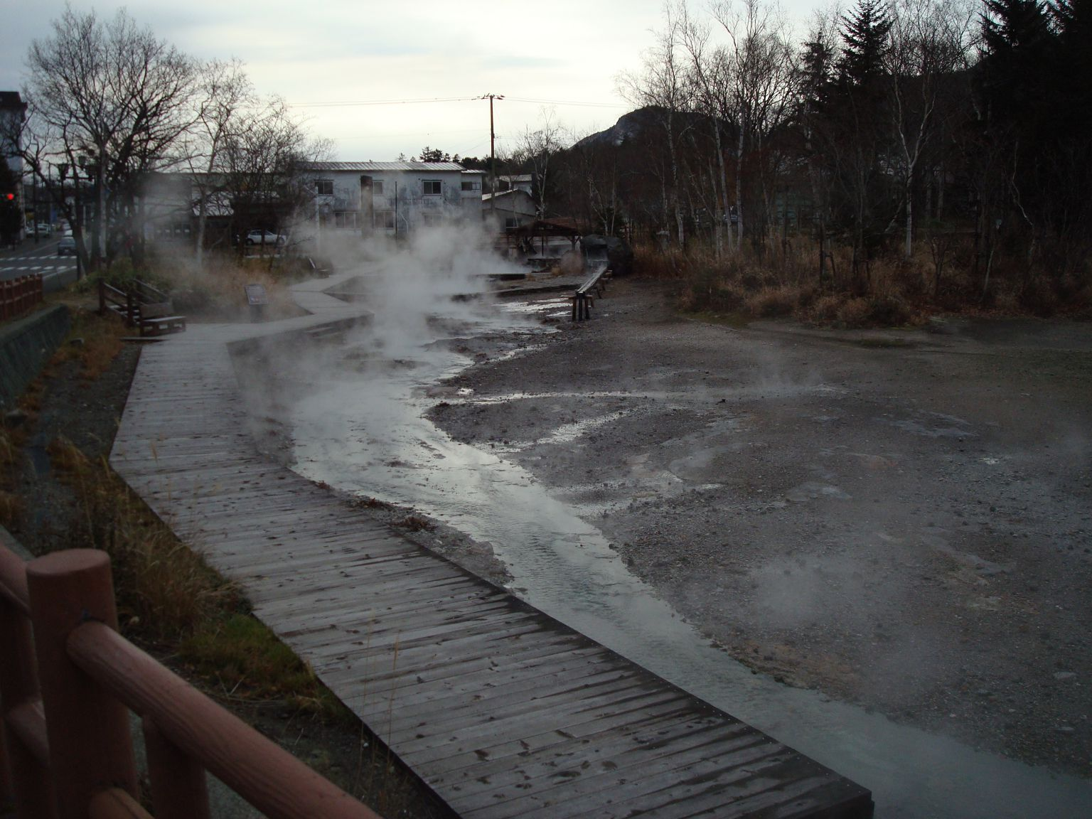 Hot spring river at Kawayu onsen, Teshikaga, Hokkaido, Japan.